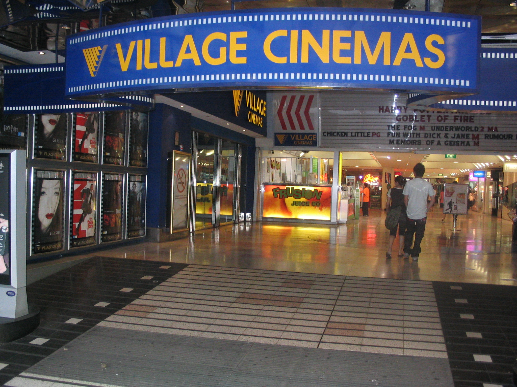 Village Bourke Street - day after closing for good